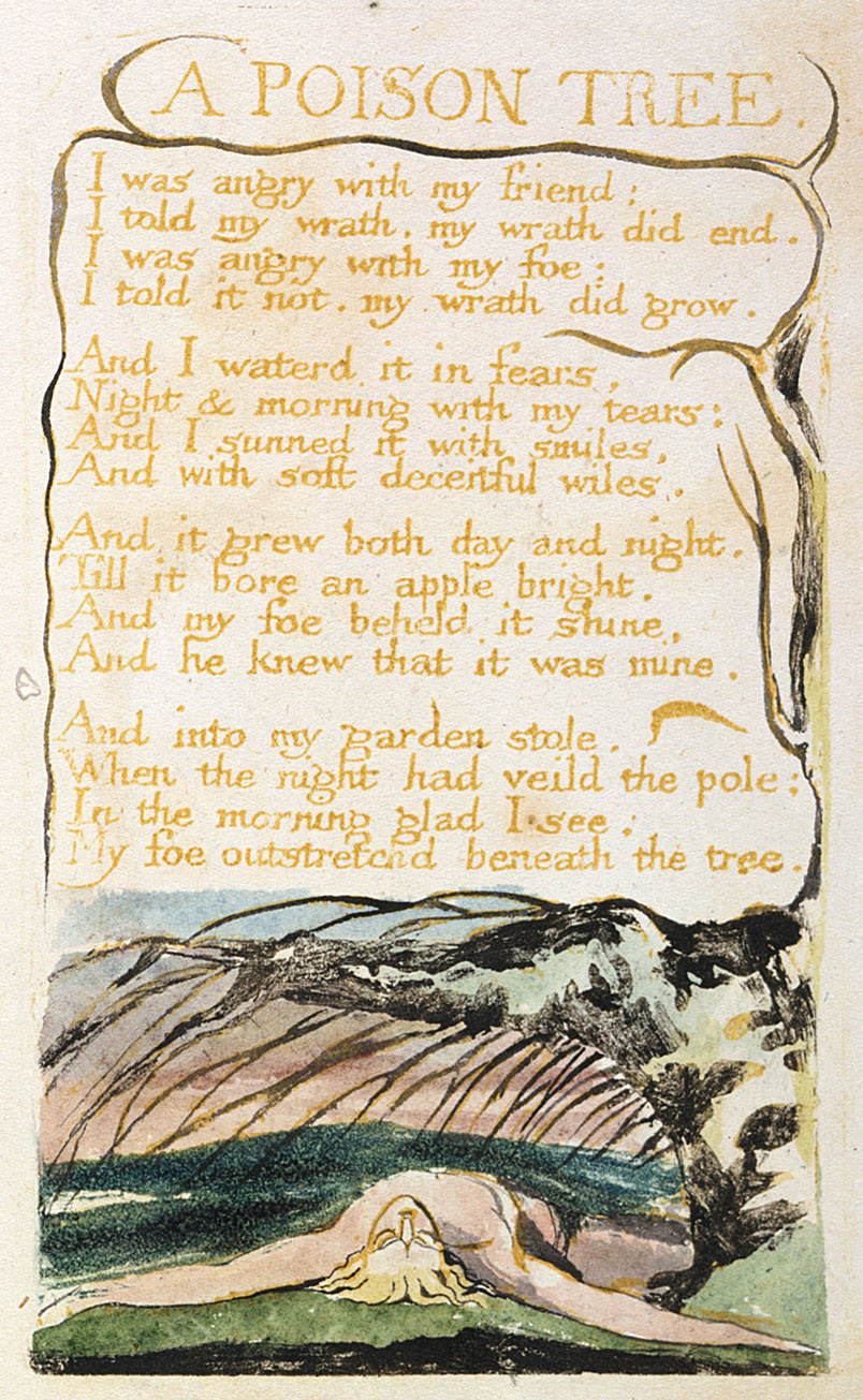 Songs of Innocence and of Experience, copy B, object 48 (Bentley 49, Erdman 49, Keynes 49) "A POISON TREE"